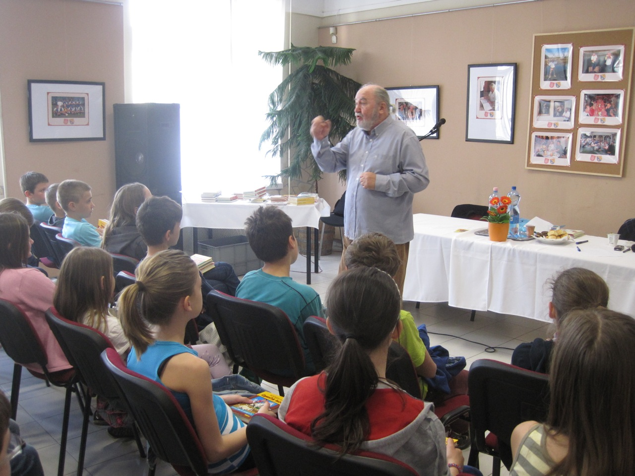 Gabor Nogradi gives lecture at school